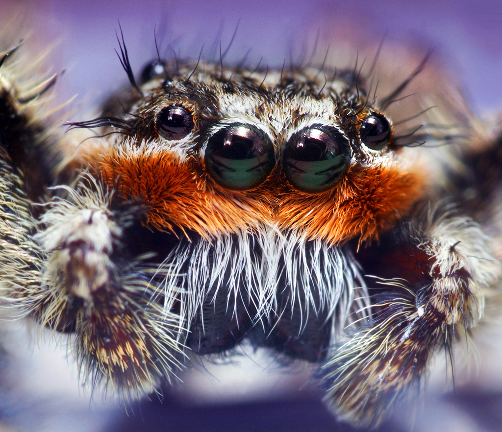 A large, male, Platycryptus undatus jumping spider taken with a Pentax *ist DL